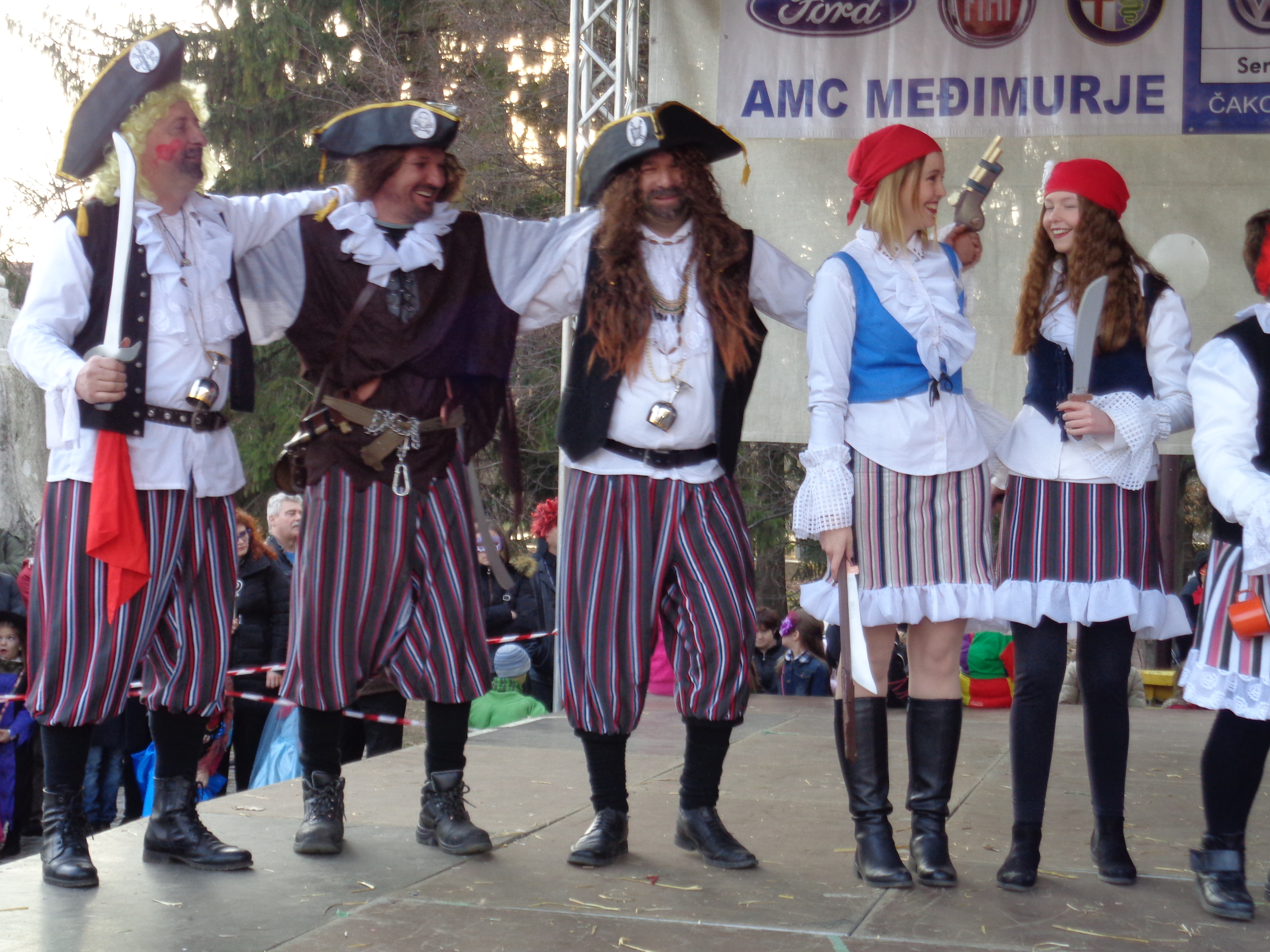 Medjimurje Carnival 2017 in Čakovec (Croatia) - "Pirates"